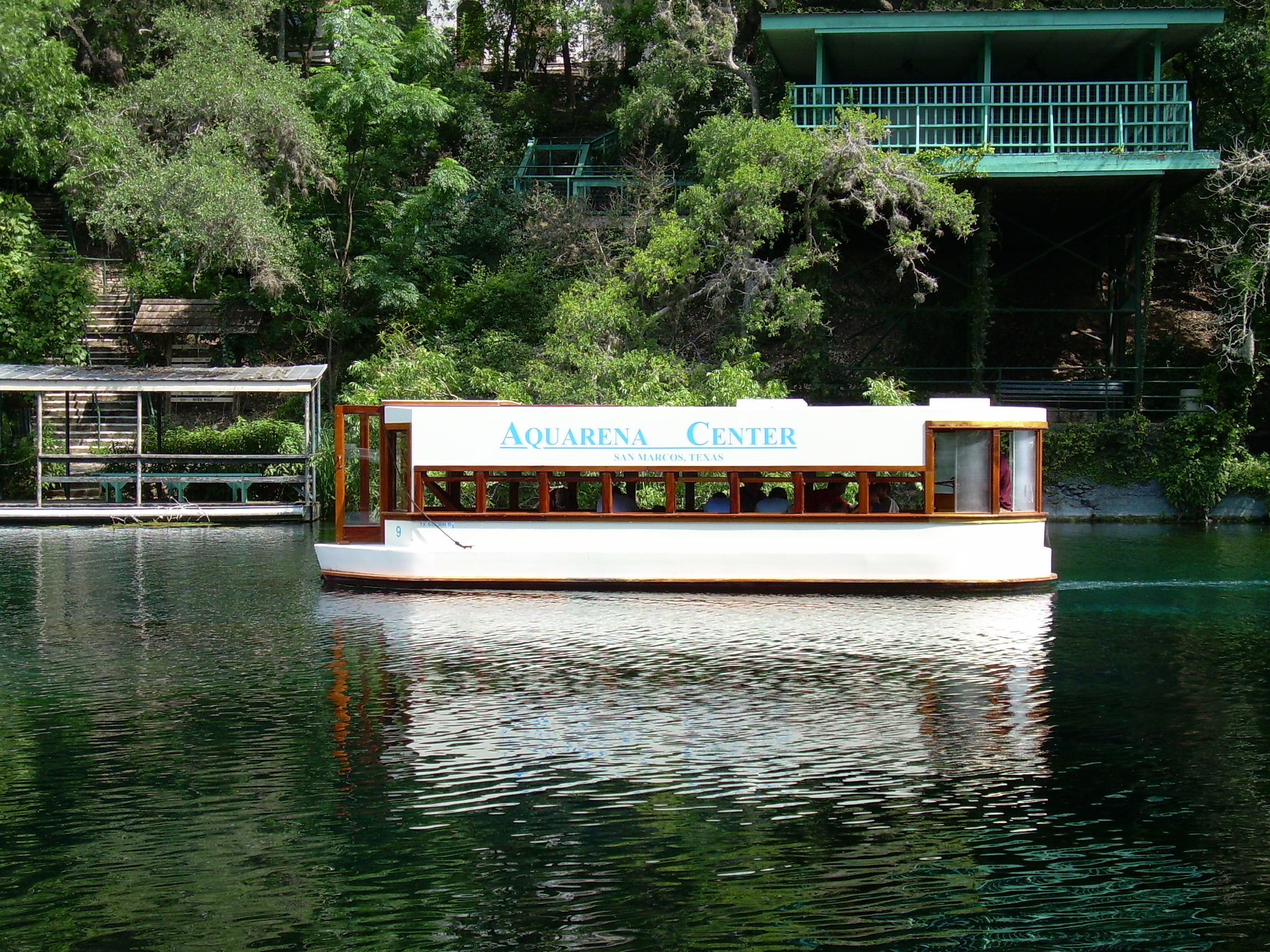 One of the glass-bottomed boats at the Aquarena Center in San Marcos, Texas